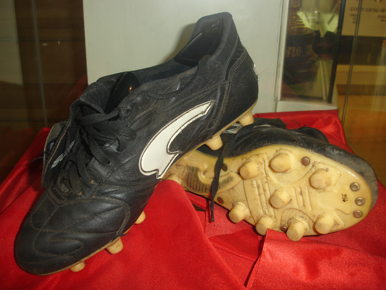 Hristo Stoichkov - Football (soccer) shoes that he wore scoring his goal #100 for FCBarcelona